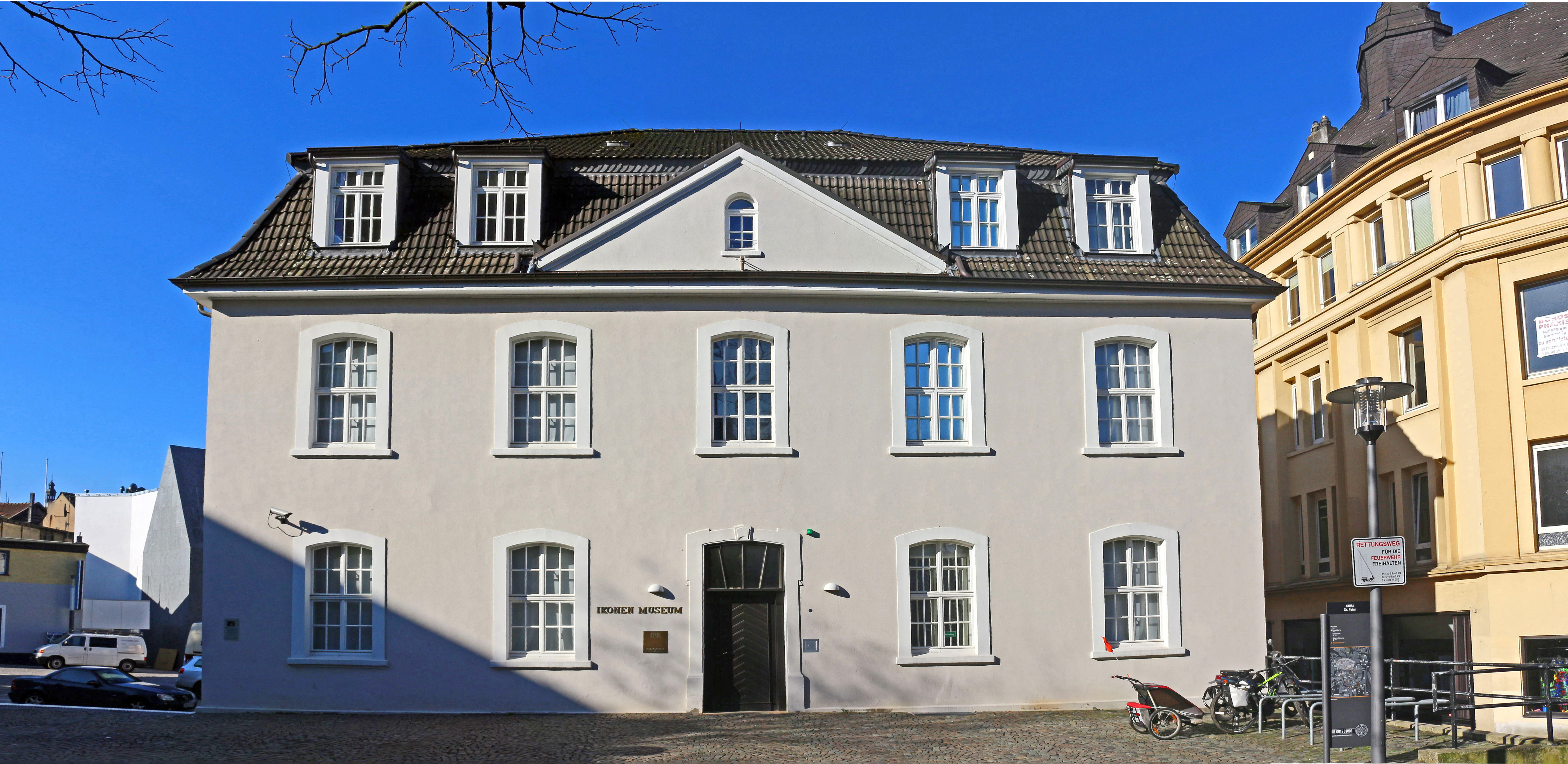 Icon Museum - Recklinghausen, North Rhine-Westphalia, Germany